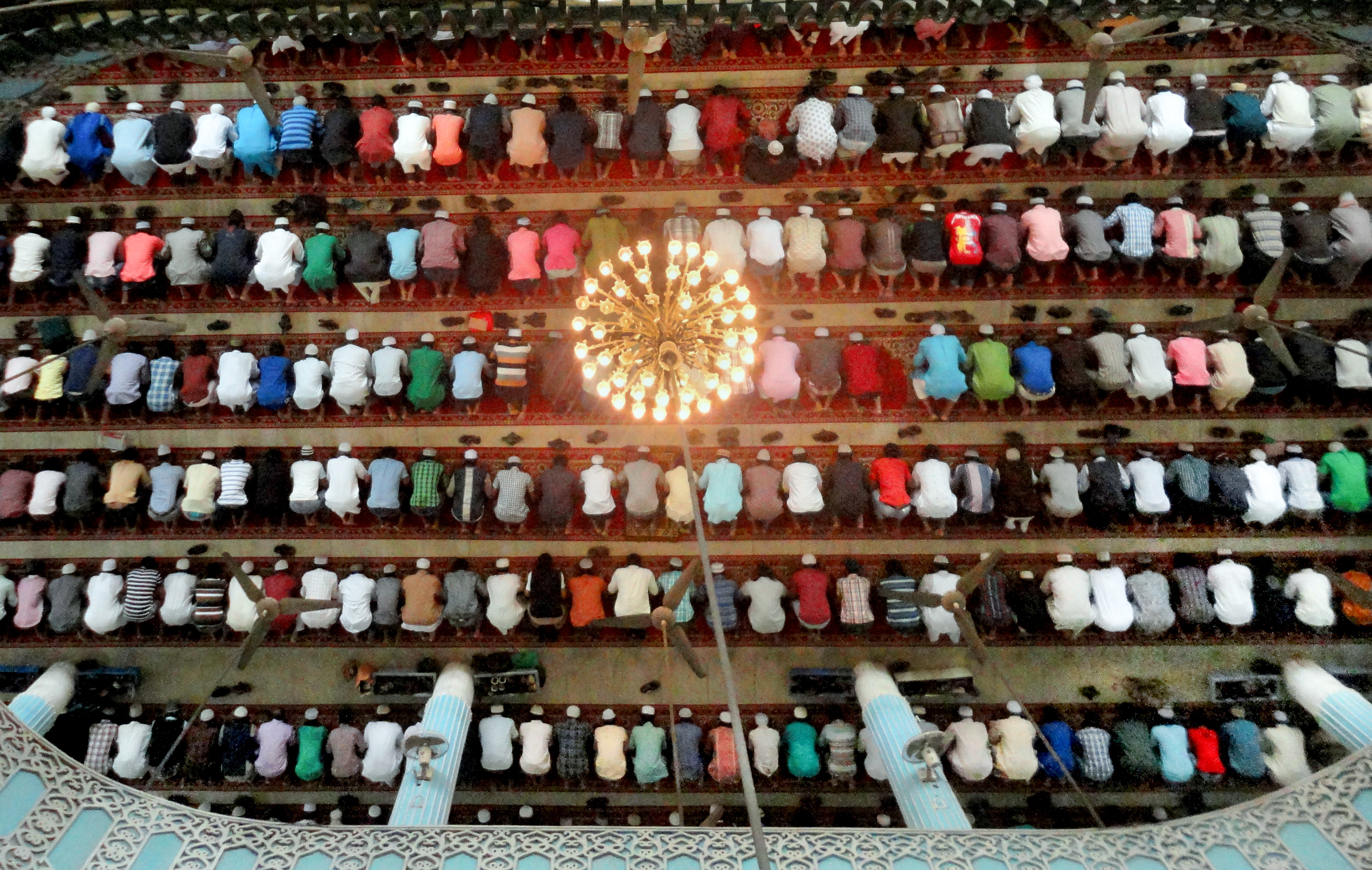 Muslims praying in a Masque in Bangladesh.